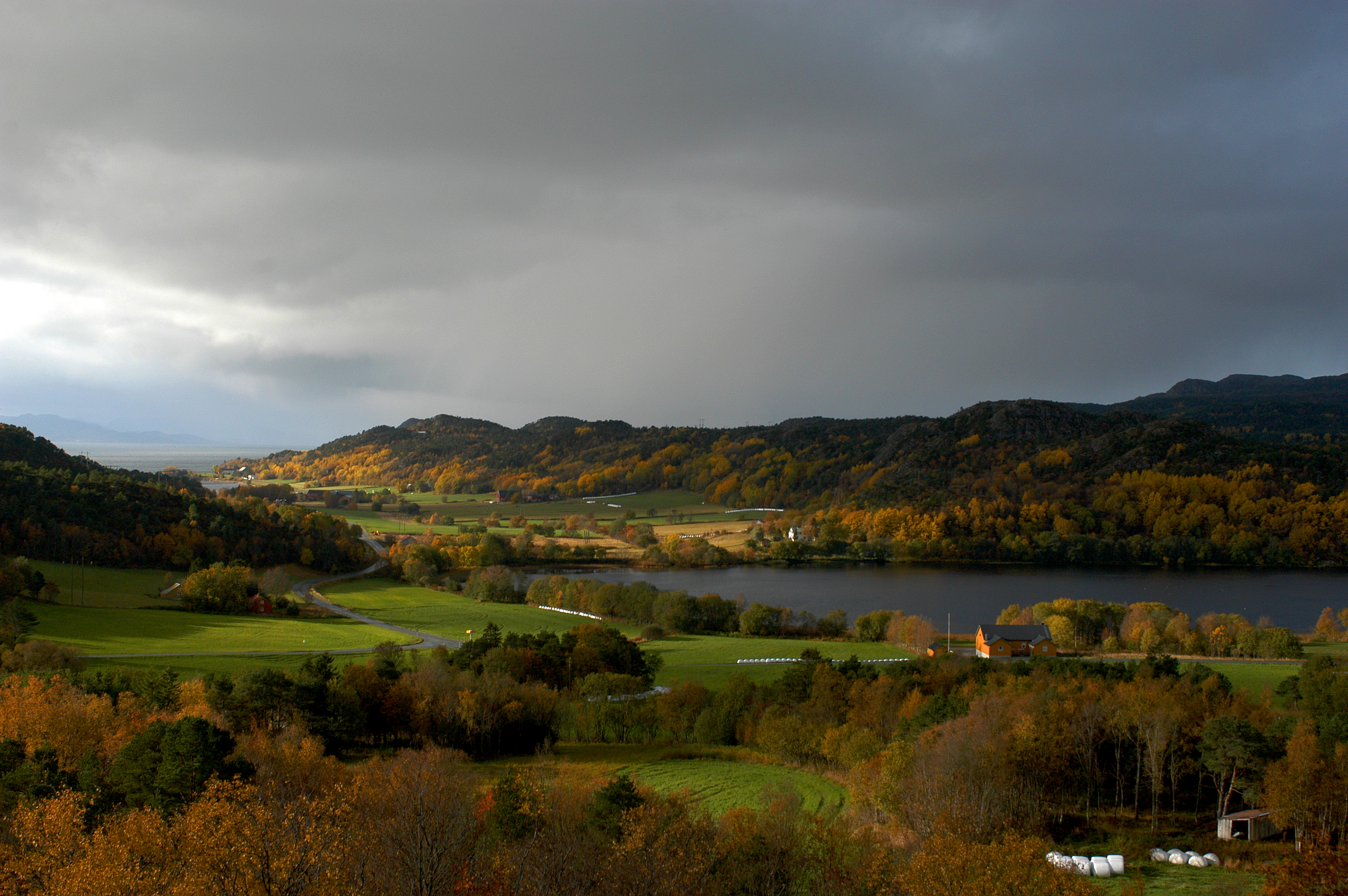 Overlooking Eide, Bjugn, towards the trondheim fjord